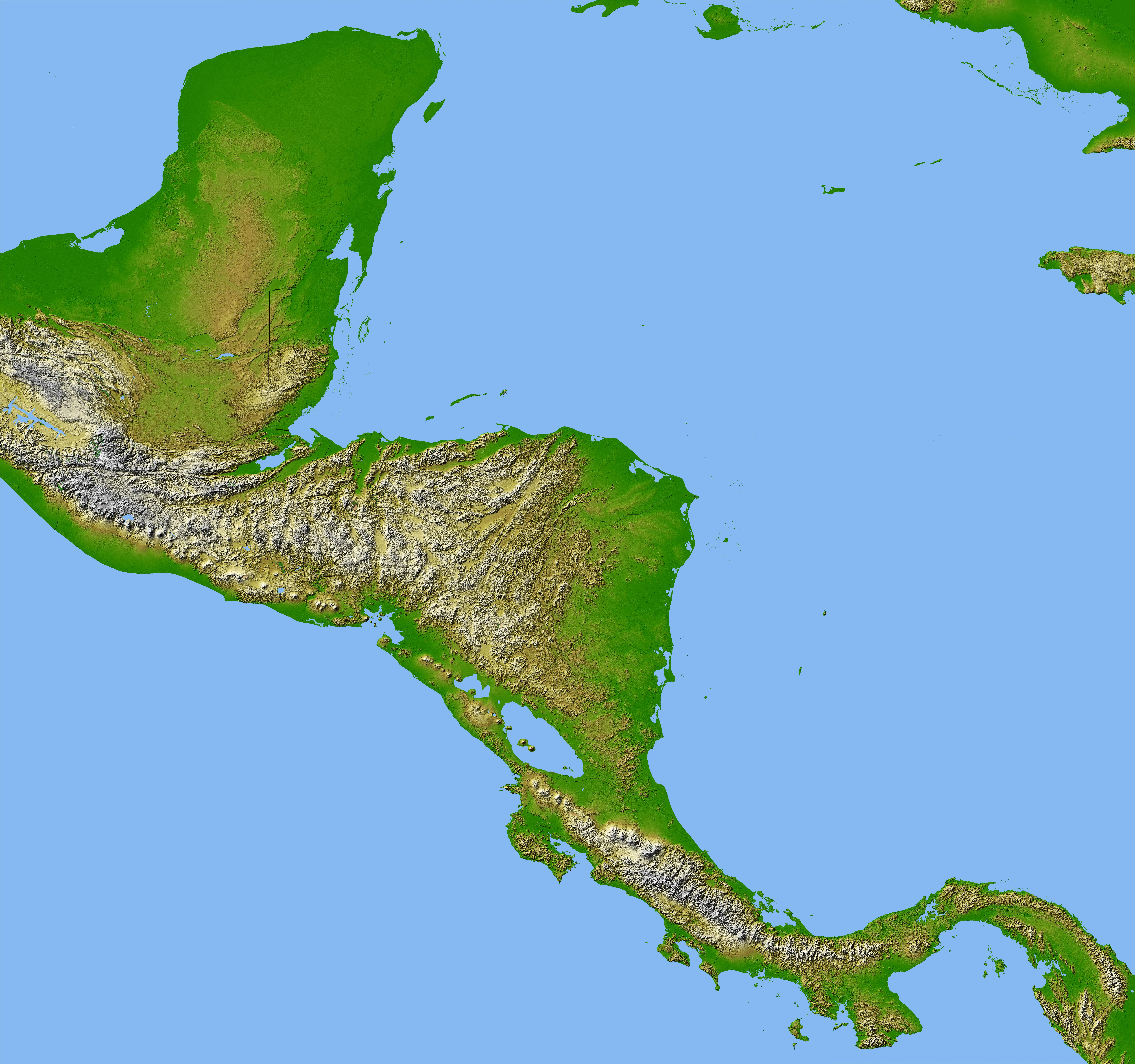 Central America in SRTM Shaded Relief and Colored Height